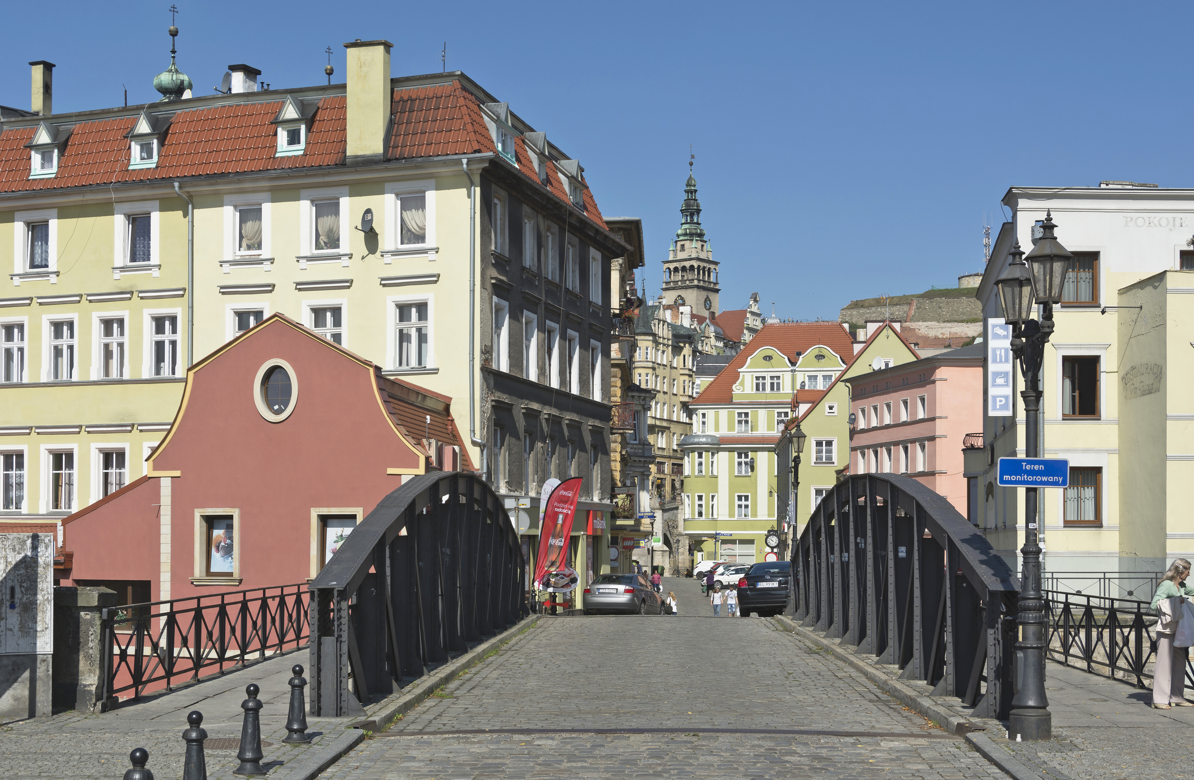 Iron bridge in Kłodzko